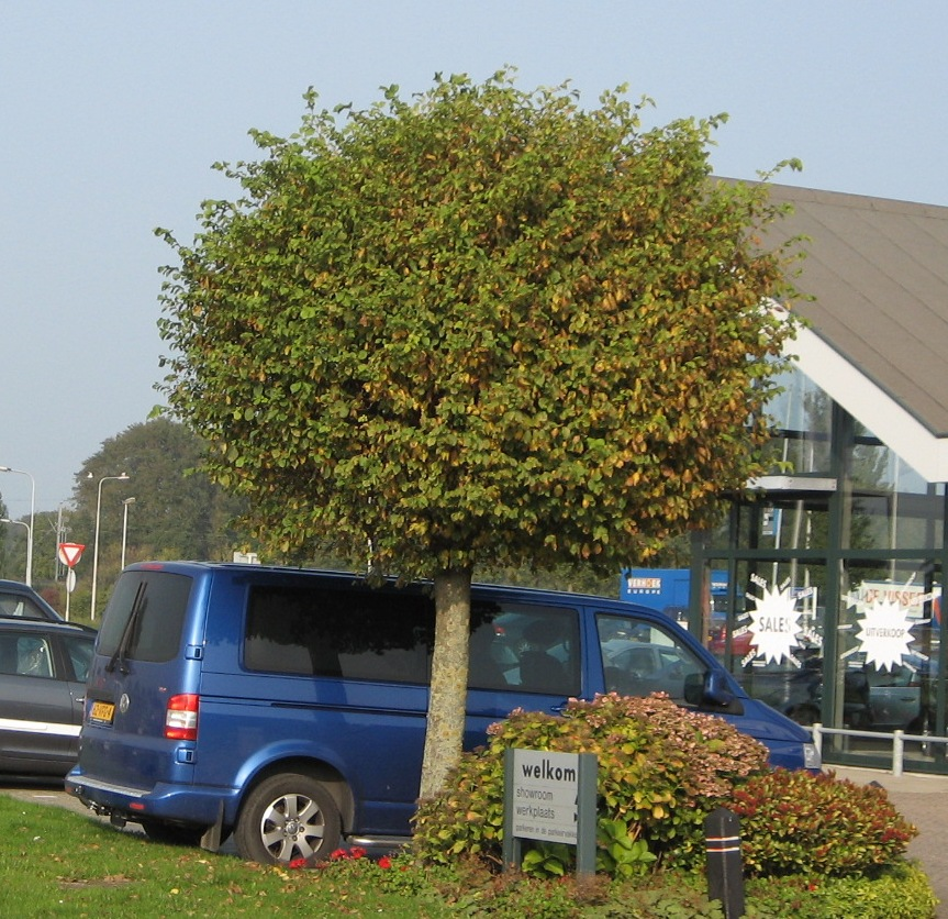 Ulmus minor 'Umbraculifera'; Photo by Ronnie Nijboer